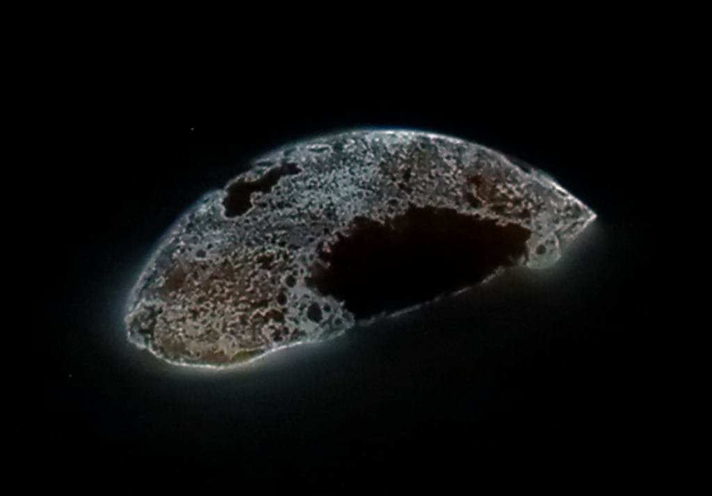 glowing pellet of white phosphorus